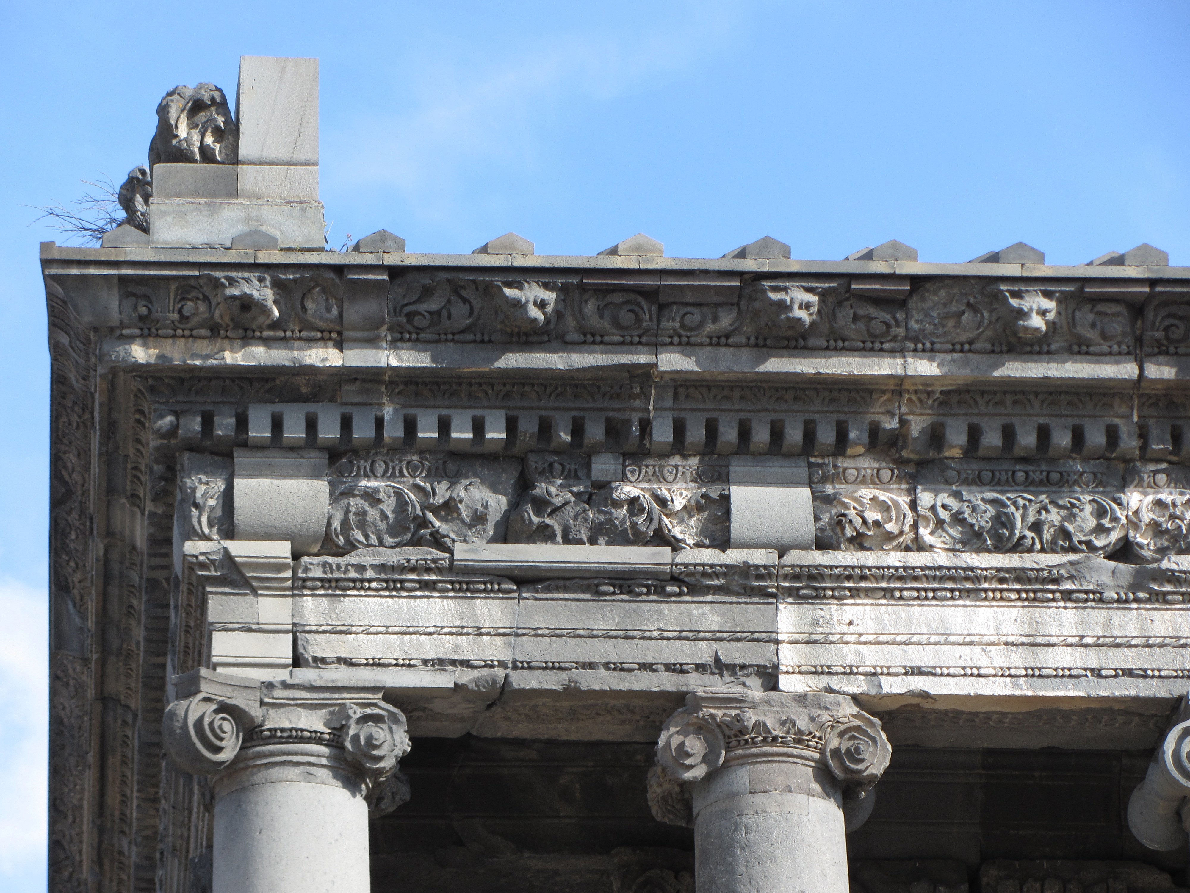 Garni, Pagan Temple, fragment of frieze